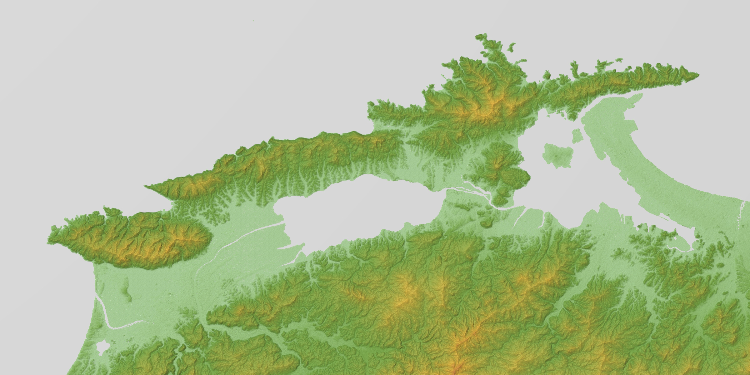 Shimane Peninsula in Shimane Prefecture, Honshu, Japan.